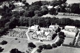 The Illawalla, Thornton, Lancashire.